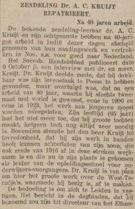 Report about the return of the missionary-ethnographer Albert Christian Kruyt to the Netherlands.